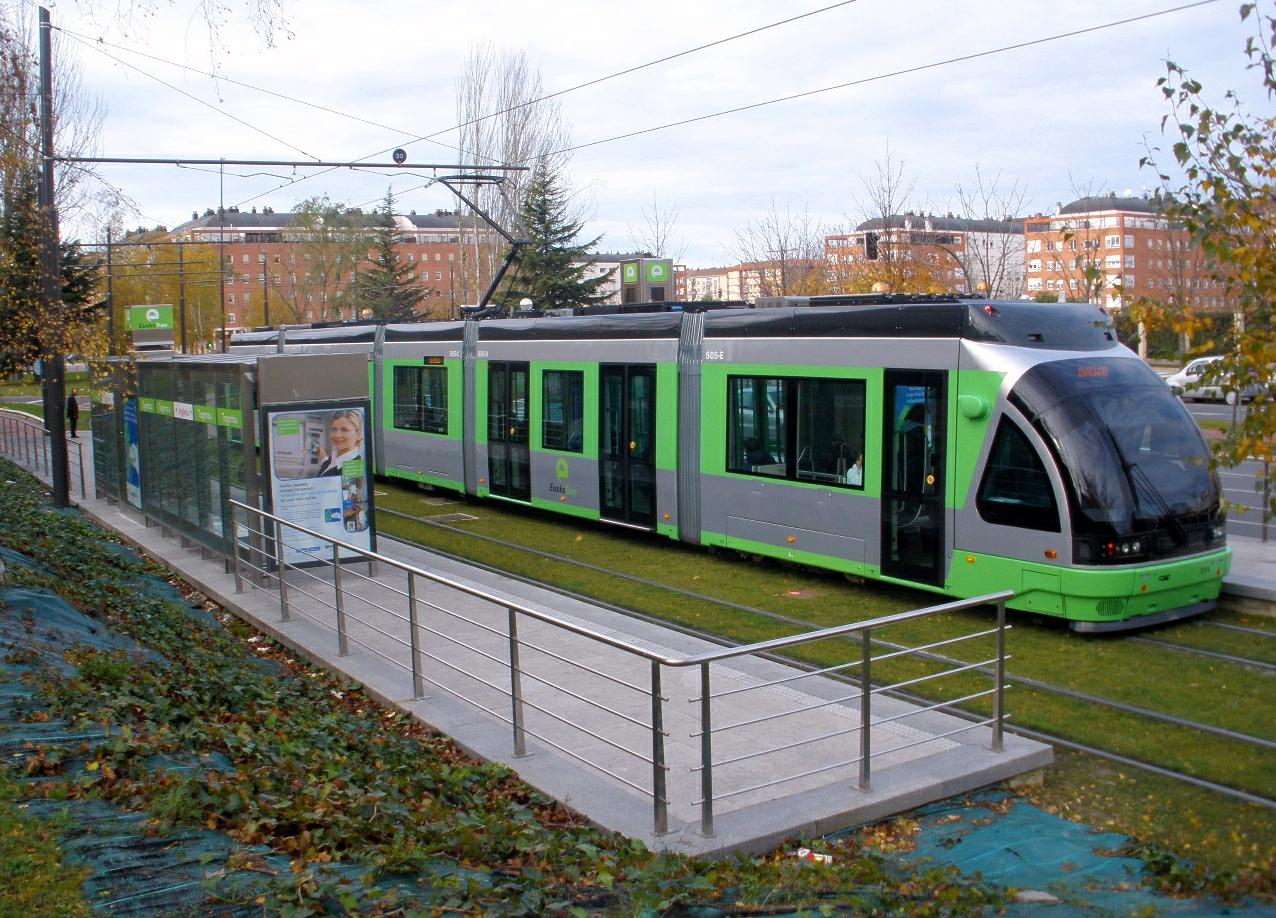 Unidad de EuskoTran en la parada de Txagorritxu de Vitoria-Gasteiz (País Vasco, España)